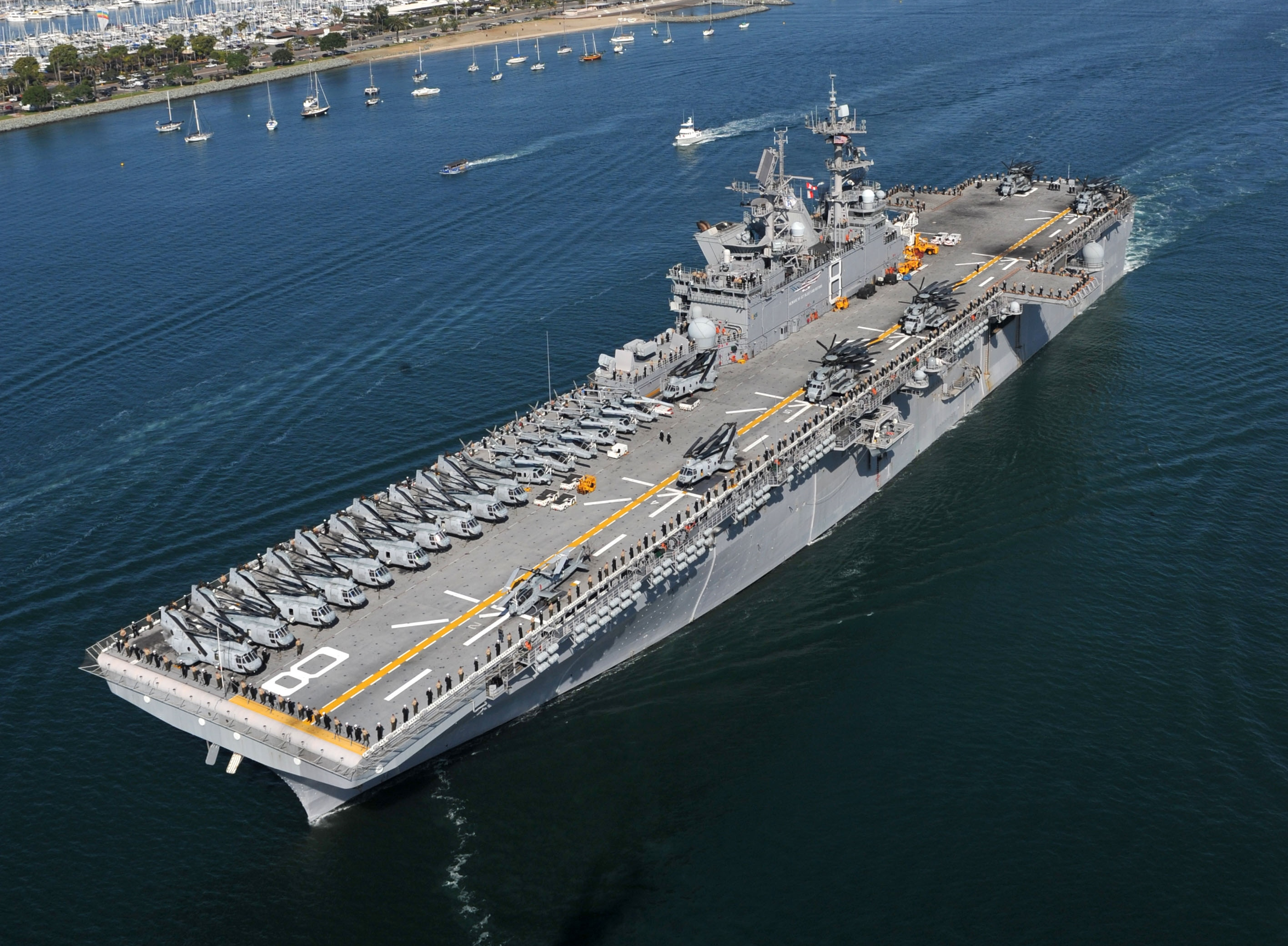 111114-N-KD852-268 SAN DIEGO (Nov. 14, 2011) Sailors and Marines man the rails aboard the amphibious assault ship USS Makin Island (LHD 8) as the ship departs San Diego on a regularly scheduled deployment in support of the Navy's Maritime Strategy. This will be the maiden deployment for Makin Island, the Navy's newest amphibious assault ship and the only U.S. Navy ship with a hybrid electric propulsion system. By using this unique propulsion system, the Navy expects to see fuel savings of more than $250 million during the ship's lifecycle, proving the Navy's commitment to energy awareness and conservation. (U.S. Navy photo by Chief Mass Communication Specialist John Lill/Released)